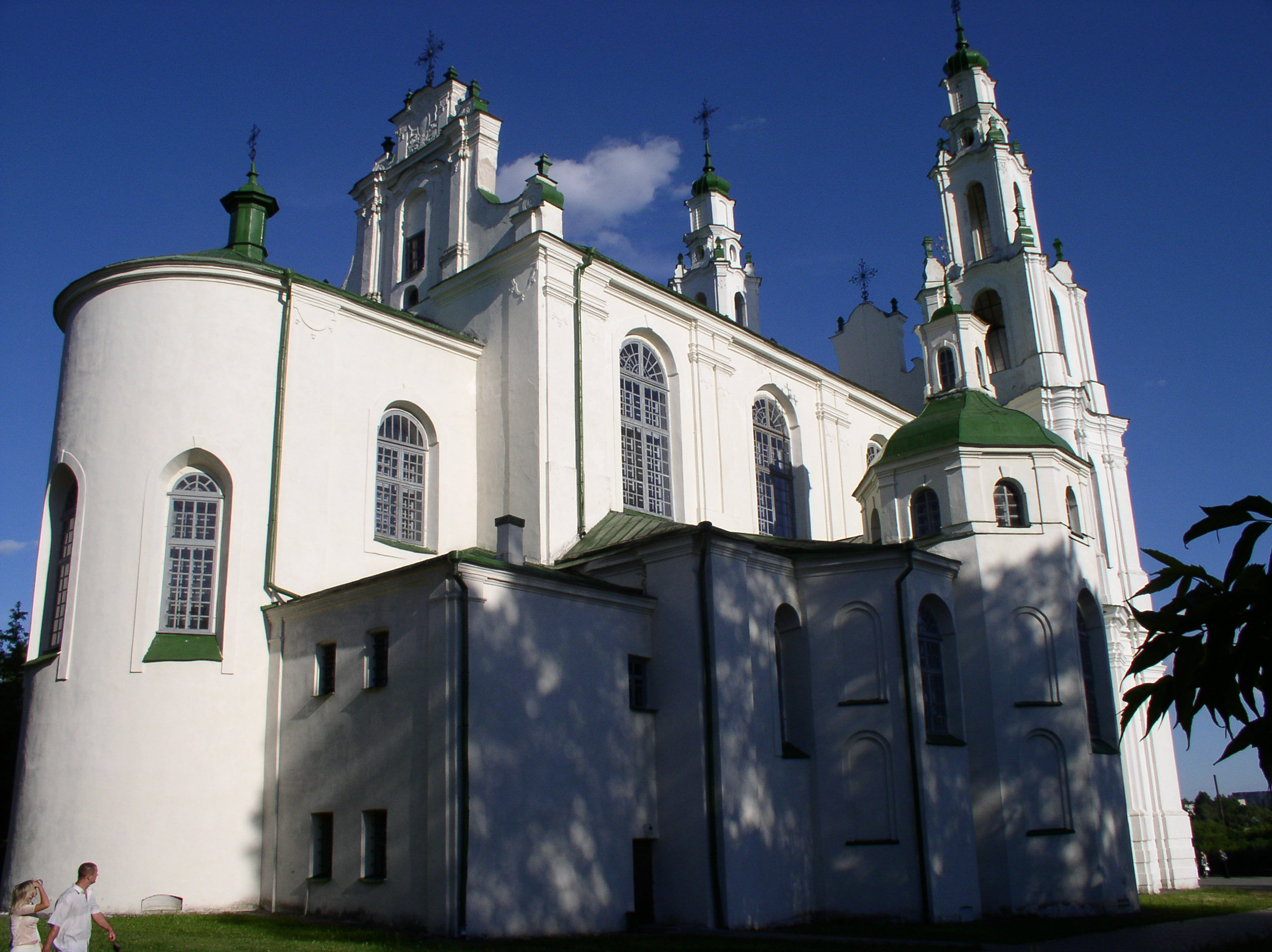 Cathedral of Saint Sophia. Polatsk, Belarus.